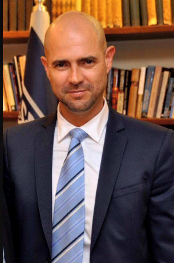 Amir Ohana at the Israeli Presidential Residence